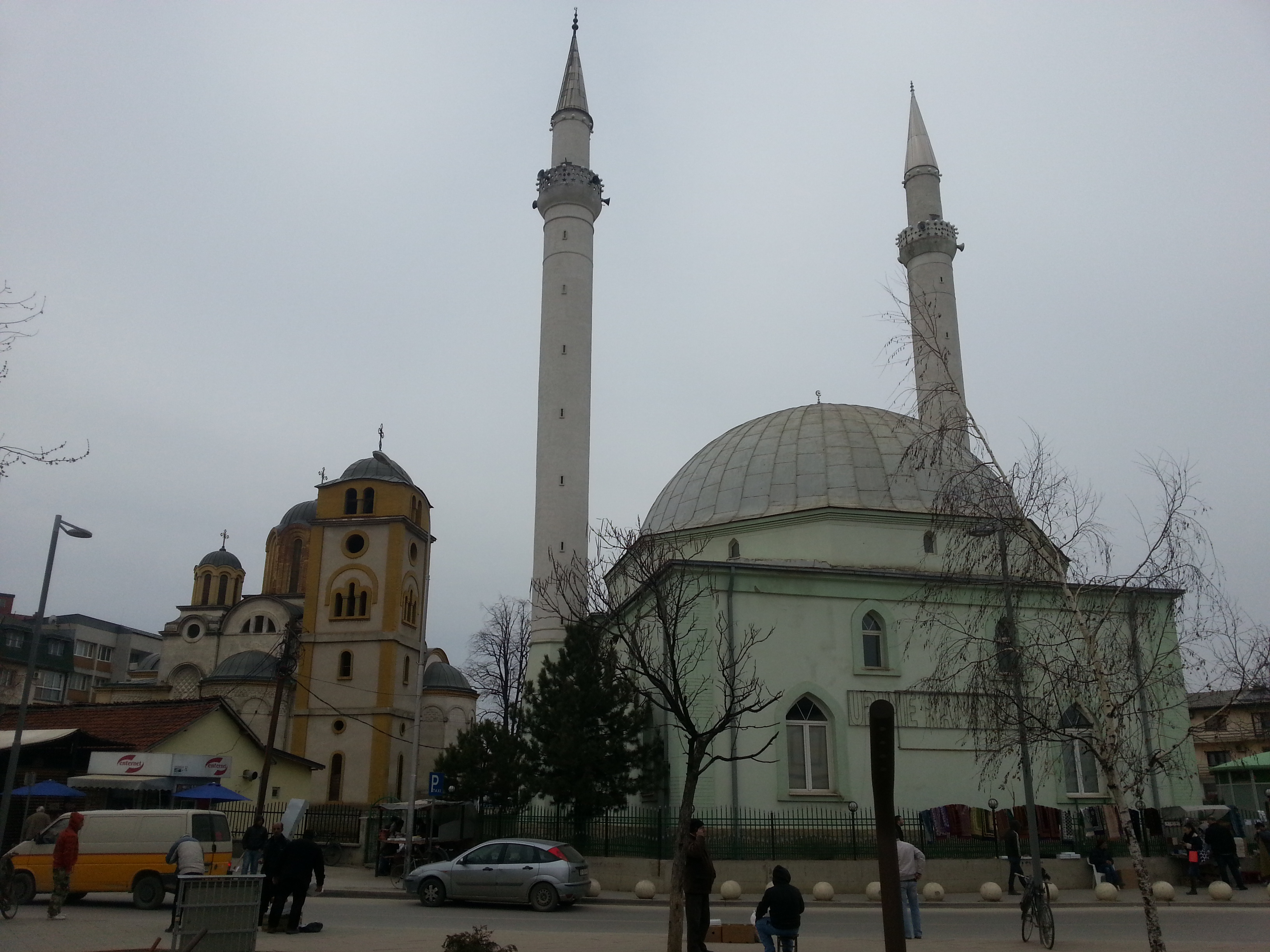 Mosque and orthodox church in Ferizaj in same yard